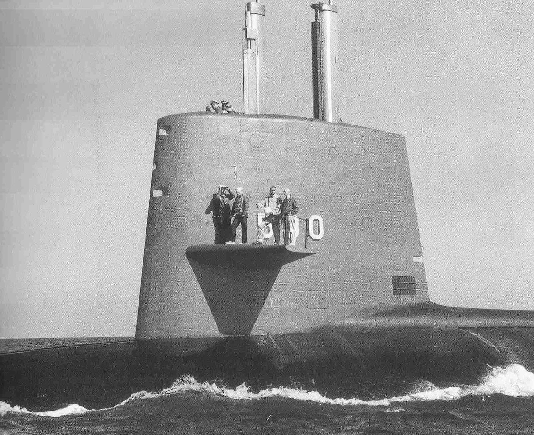 Sculpin (SSN-590) with Admiral Rickover waiting on her wings.